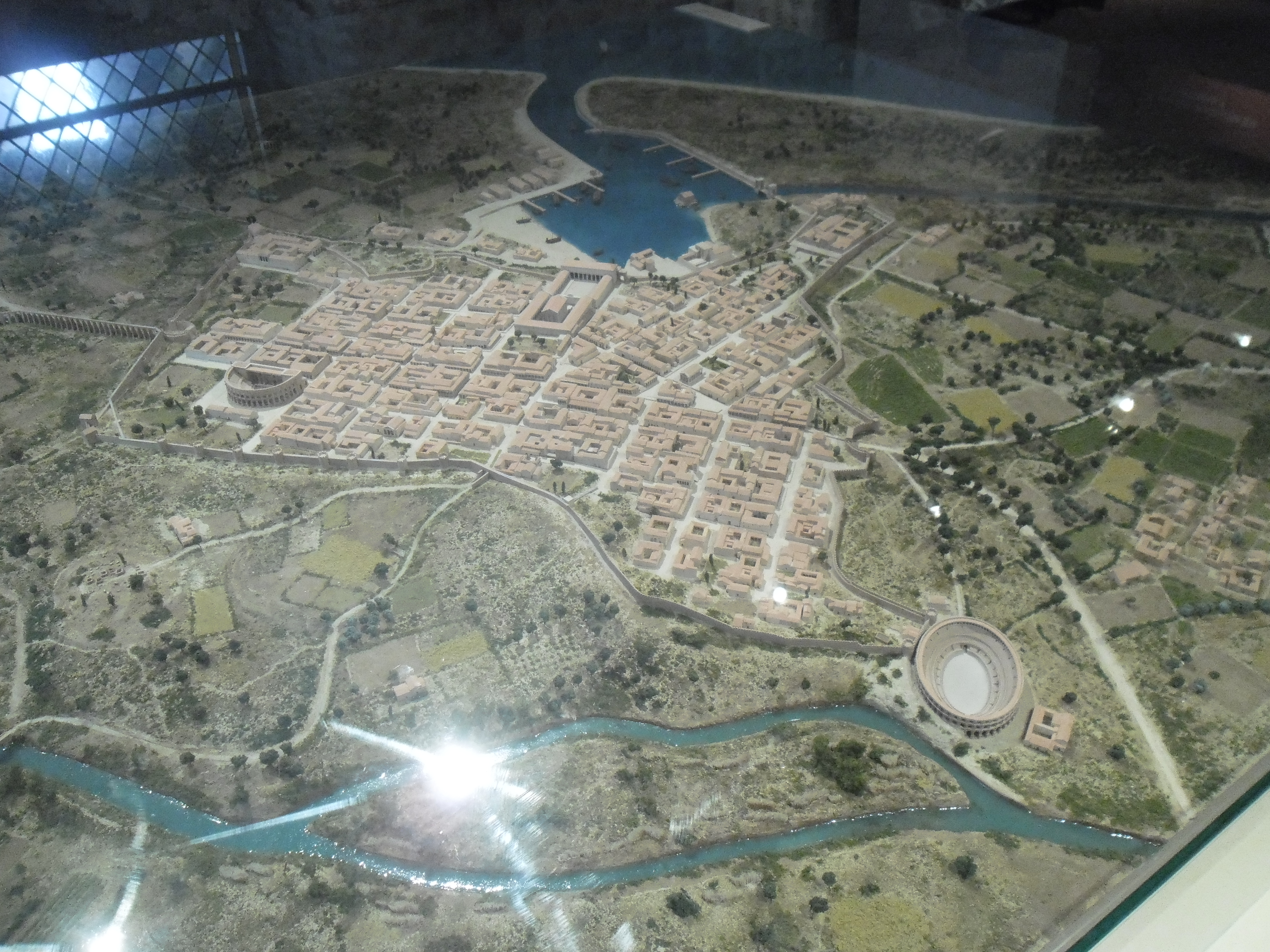 Forum Julii (Fréjus)